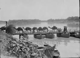 Al Kufa in 1932 furat river